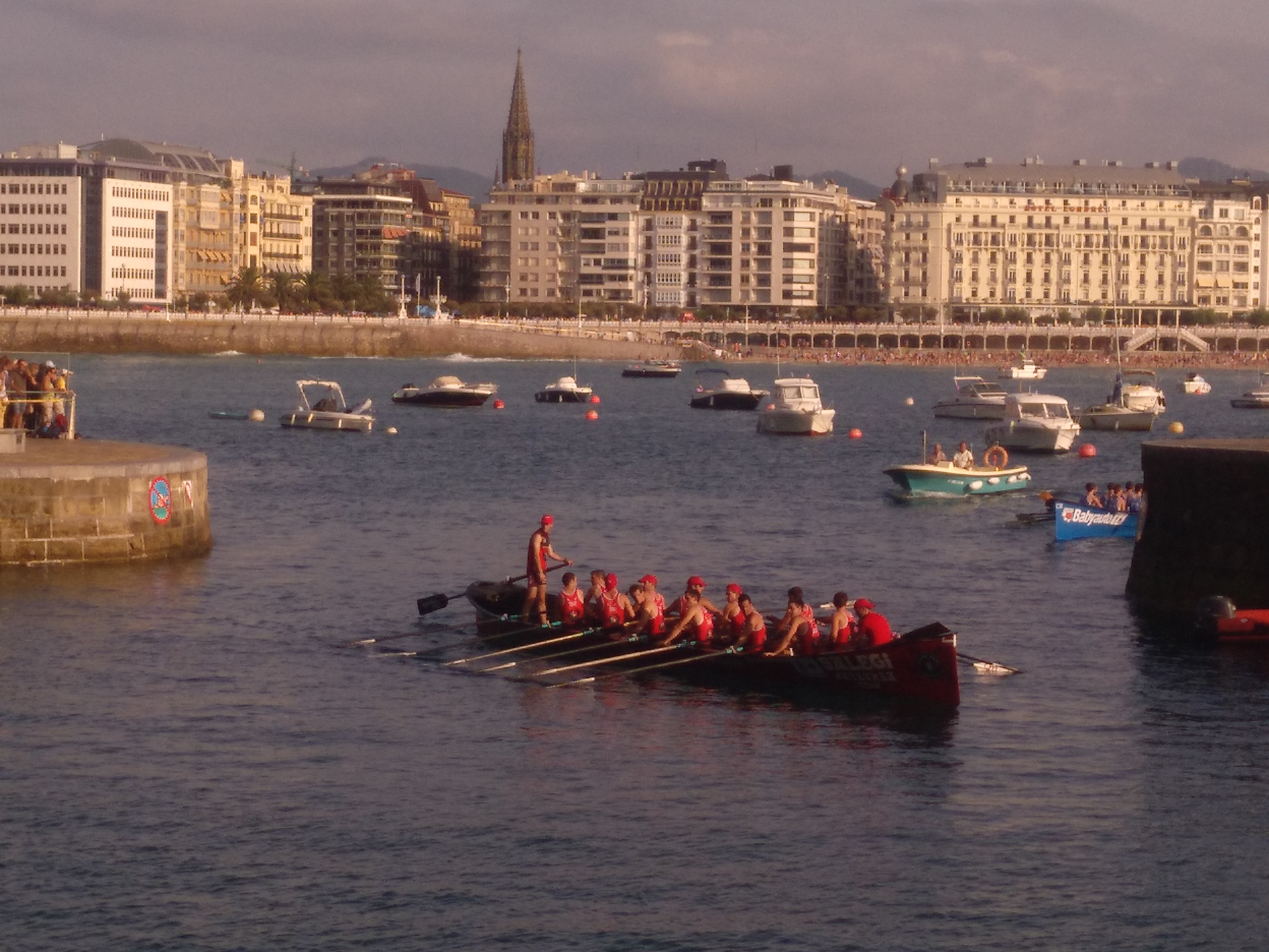 Aita Mari Arraun Elkartea (Zumaia), Flag of La Concha, 2018